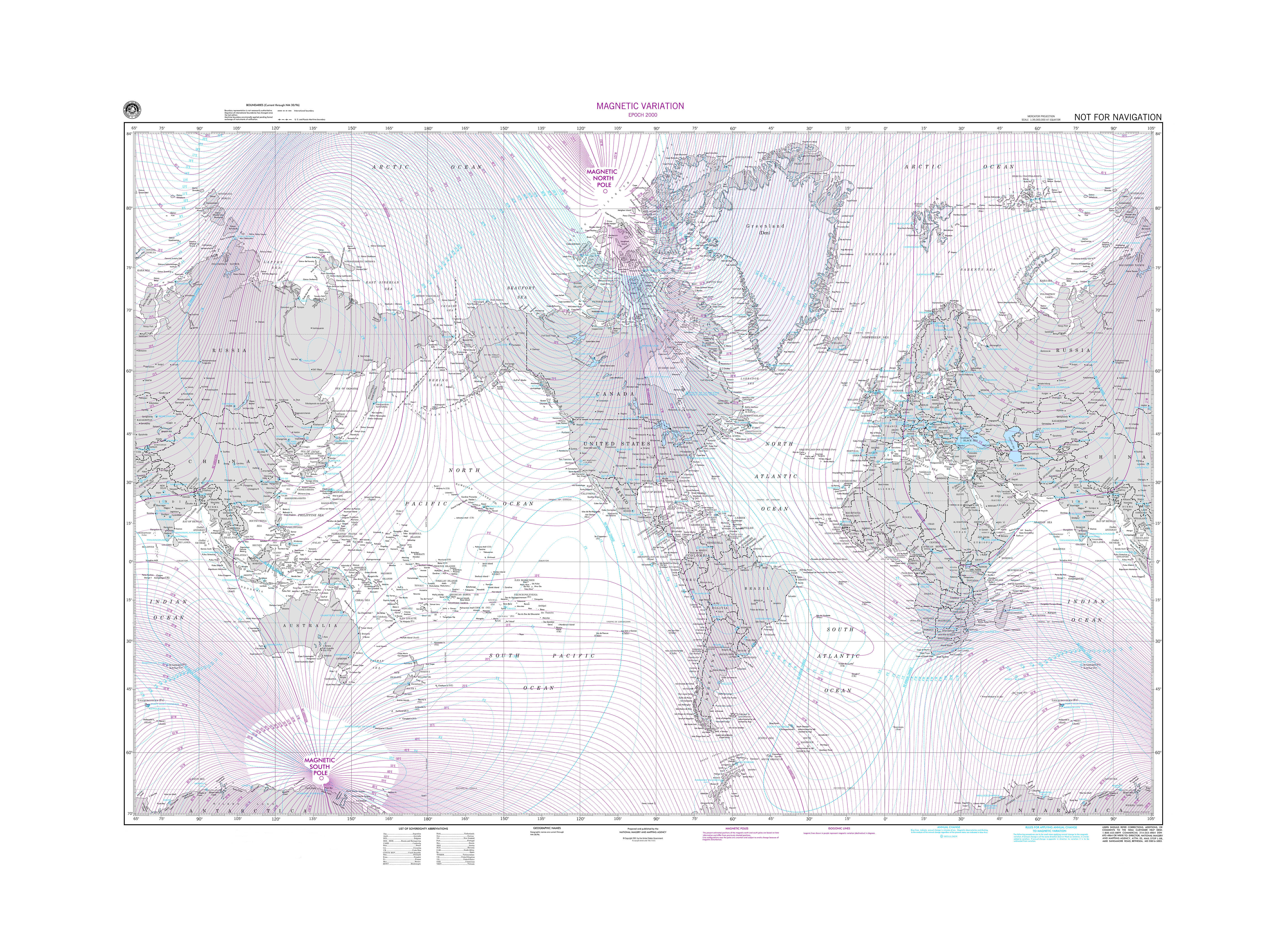 National Imaging and Mapping Agency (NIMA) Magnetic Variation Map for year 2000. Mercator projection, scale 1:39 000 000 at equator.